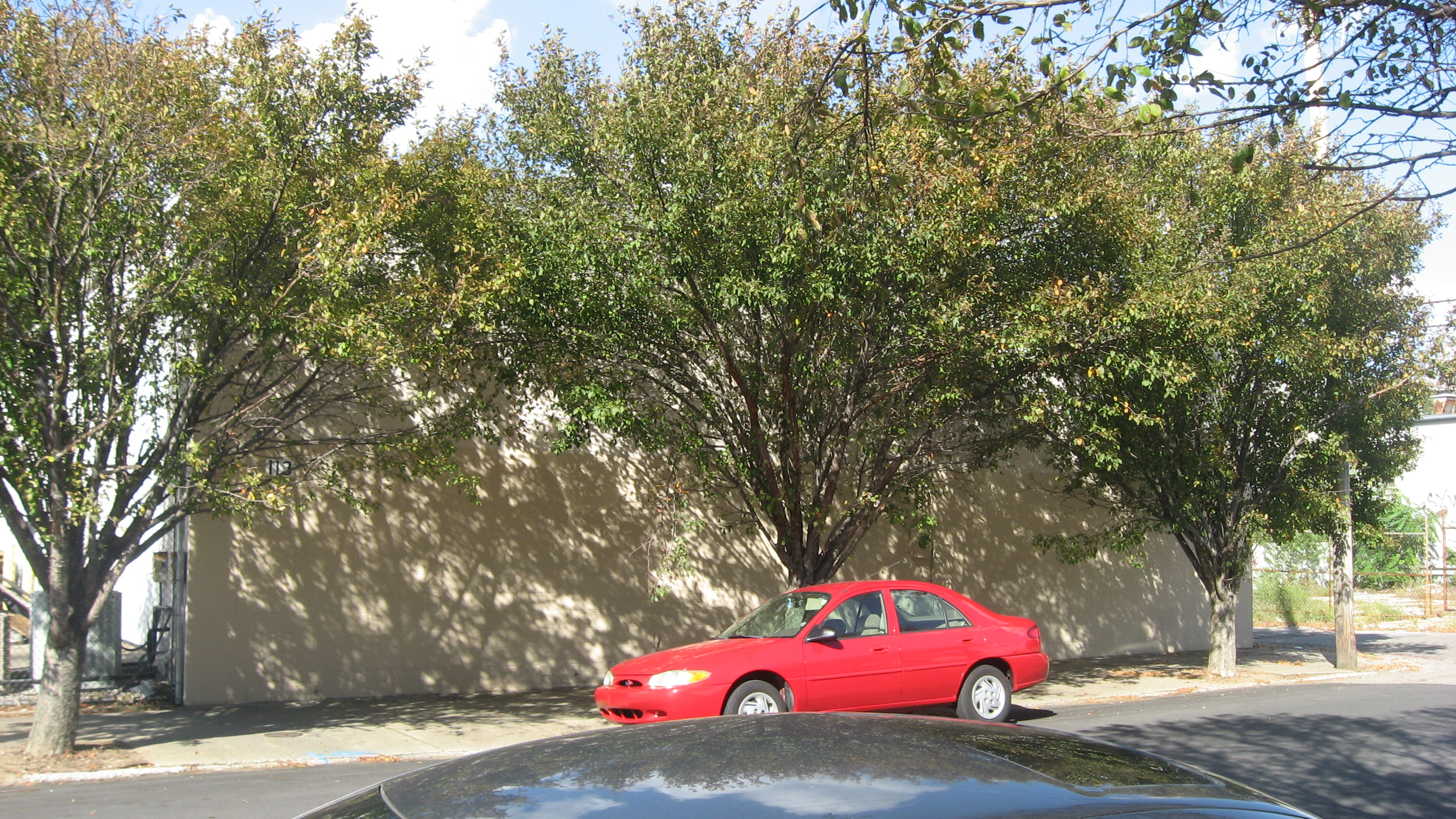 A concrete block building located at 113 W. College Street in Louisville, Kentucky, United States. The building occupies the site of the College Street Presbyterian Church, which was listed on the National Register of Historic Places in 1978 and has not yet been removed, despite its destruction.